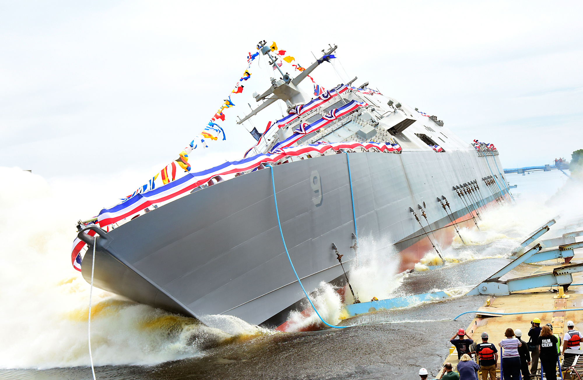 MARINETTE, Wis., (July 18, 2015) The littoral combat ship Pre-Commissioning Unit (PCU) Little Rock (LCS 9) is launched into the Menominee River in Marinette, Wisc. after a christening ceremony at the Marinette Marine Corporation shipyard. (U.S. Navy photo/Released) 150720-N-ZZ999-115 Join the conversation: navylive.dodlive.mil